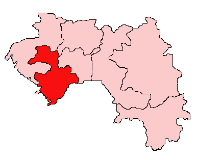 Map of Guinea showing Kindia Region. Created using the GIMP